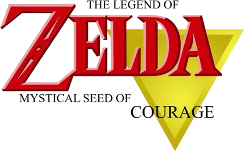 Logotype of The Legend of Zelda: Mystical Seed of Courage (a non-finished game that was supposed to be part of the The Triforce Trilogy).